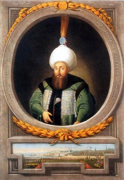 Selim III